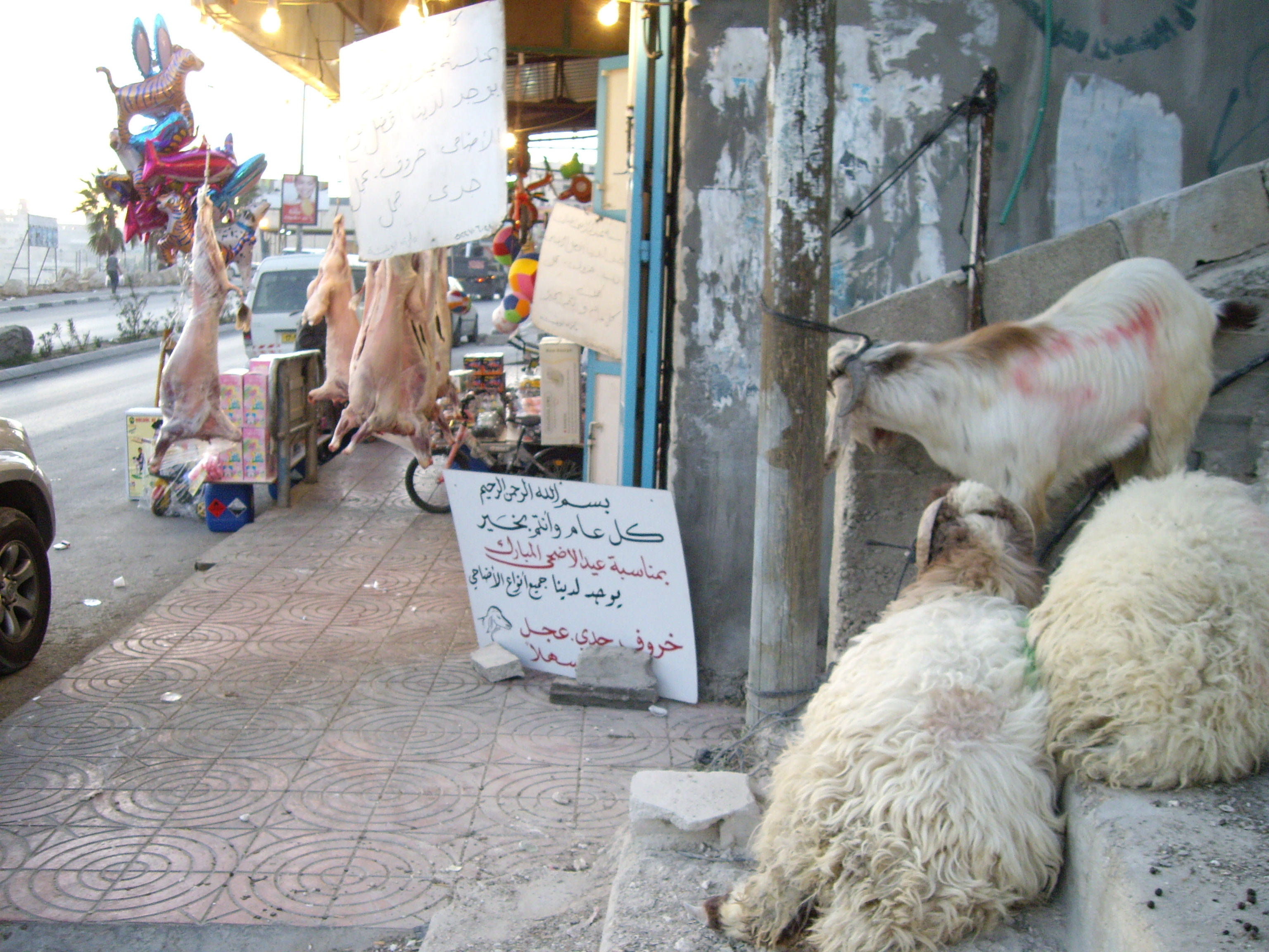 Arab butcher's shop alongside with toys shop, Al-Eizariya, Jericho road - IMGP8418 Jerusalem